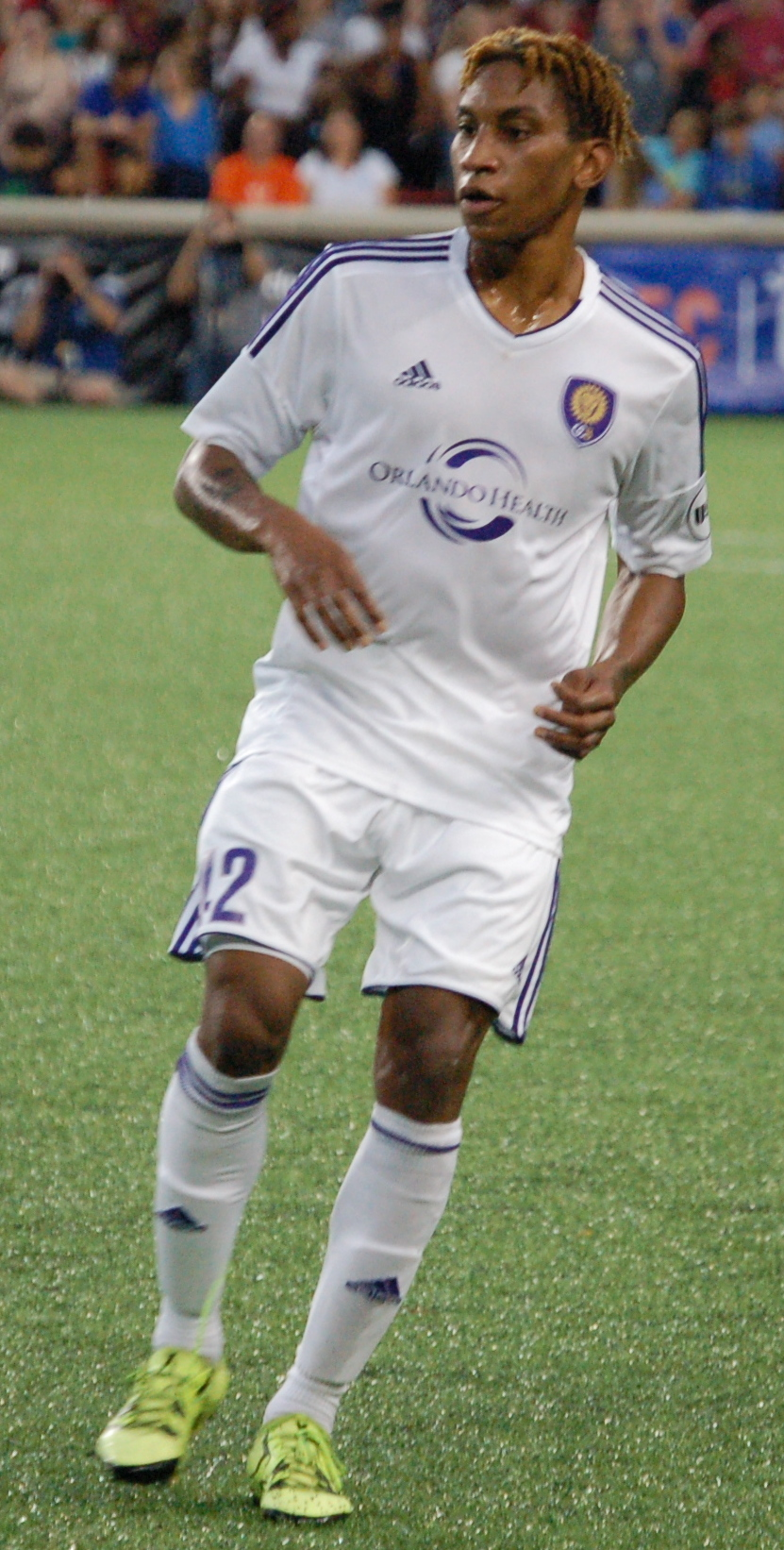 Zachary Ellis-Hayden Taken during USL regular season match between FC Cincinnati and Orlando City B at Nippert Stadium in Cincinnati, USA on September 17, 2016.